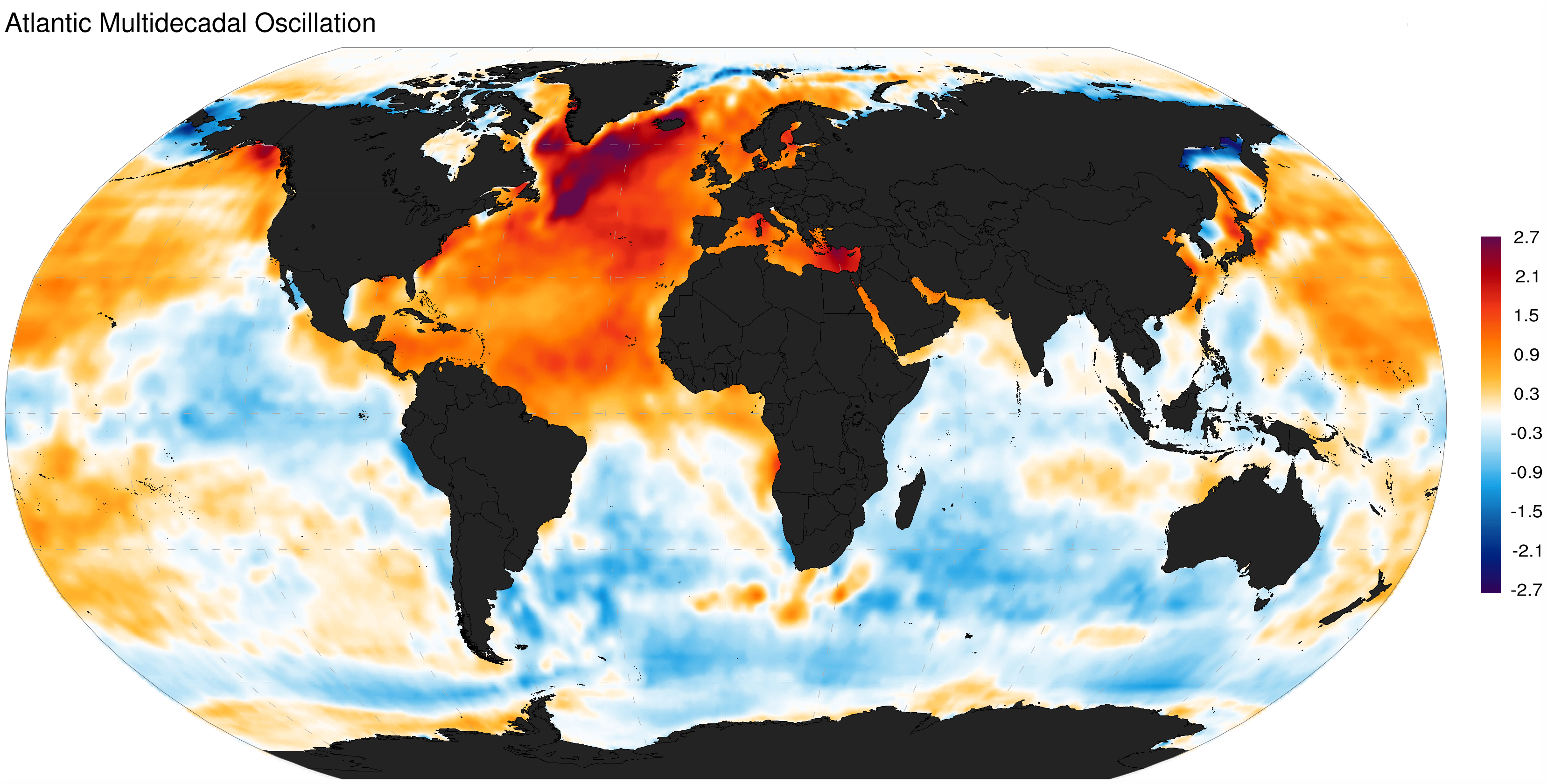 Atlantic multidecadal oscillation spatial pattern obtained as the regression of monthly HadISST sea surface temperature anomalies (1870-2013) on the north atlantic average ssta after the global mean has been removed. Note: The regression pattern is unitless(°C/°C), it depict sea surface temperature anomalies in °C per °C of the AMO index. Over the instrumental period the 10 yr average amo index computed as the north atlantic ssta minus global ssta has fluctuated from a maximum of about +0.3 °C to a minimum of -0.2 °C thus the ssta variability associated with the amo from the maximum to minimum has been roughly half that in the map. Ref: Data source, HadISST (1870-2013)